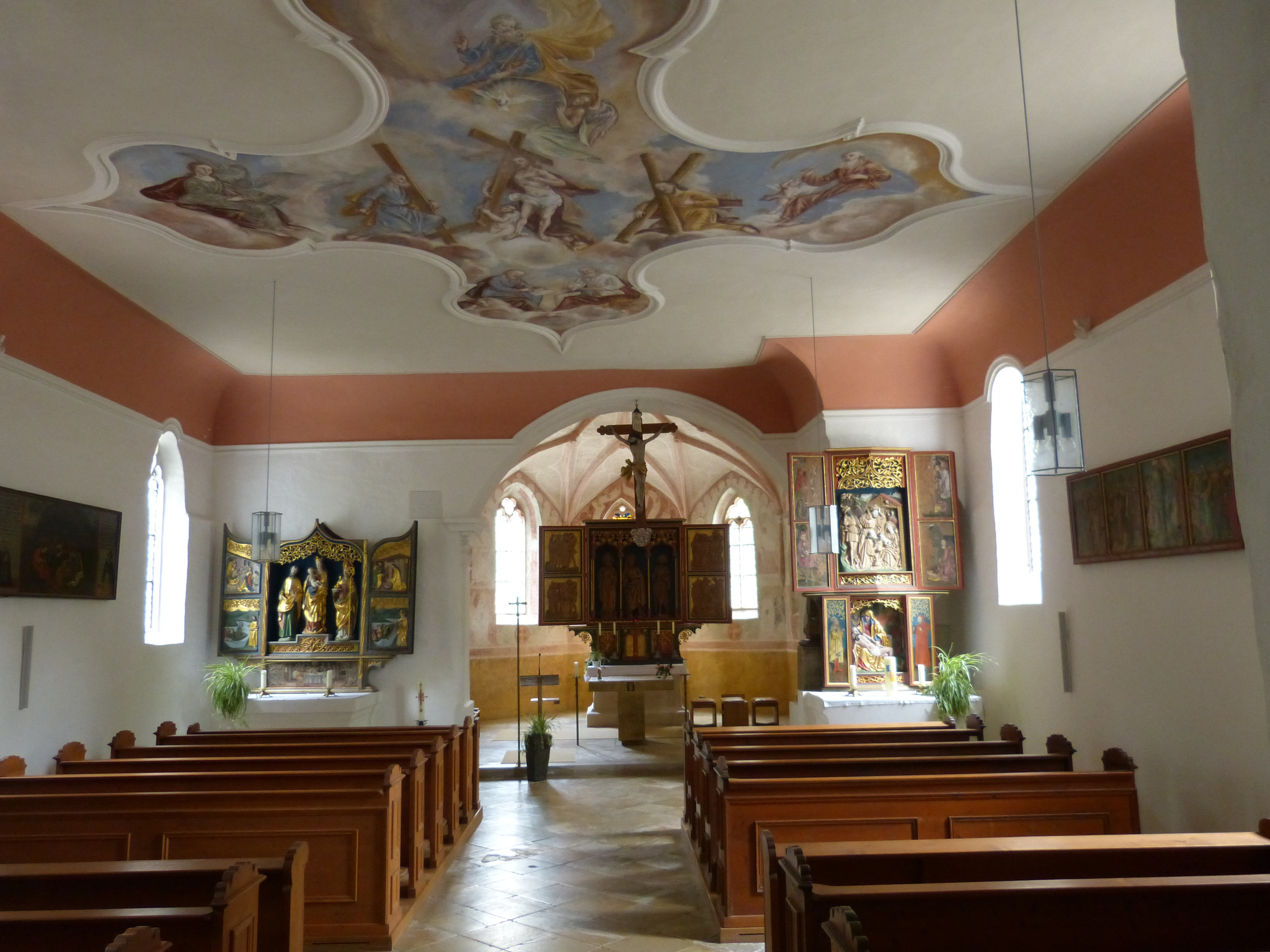 Landau an der Isar ( Lower Bavaria ). Cemetery church of the Holy Cross - Interior.